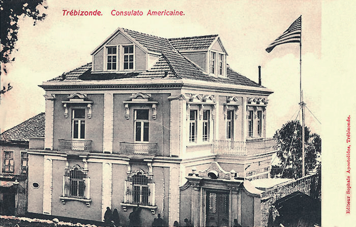 The former American consulate in Trebizond [Trabzon, Turkey].